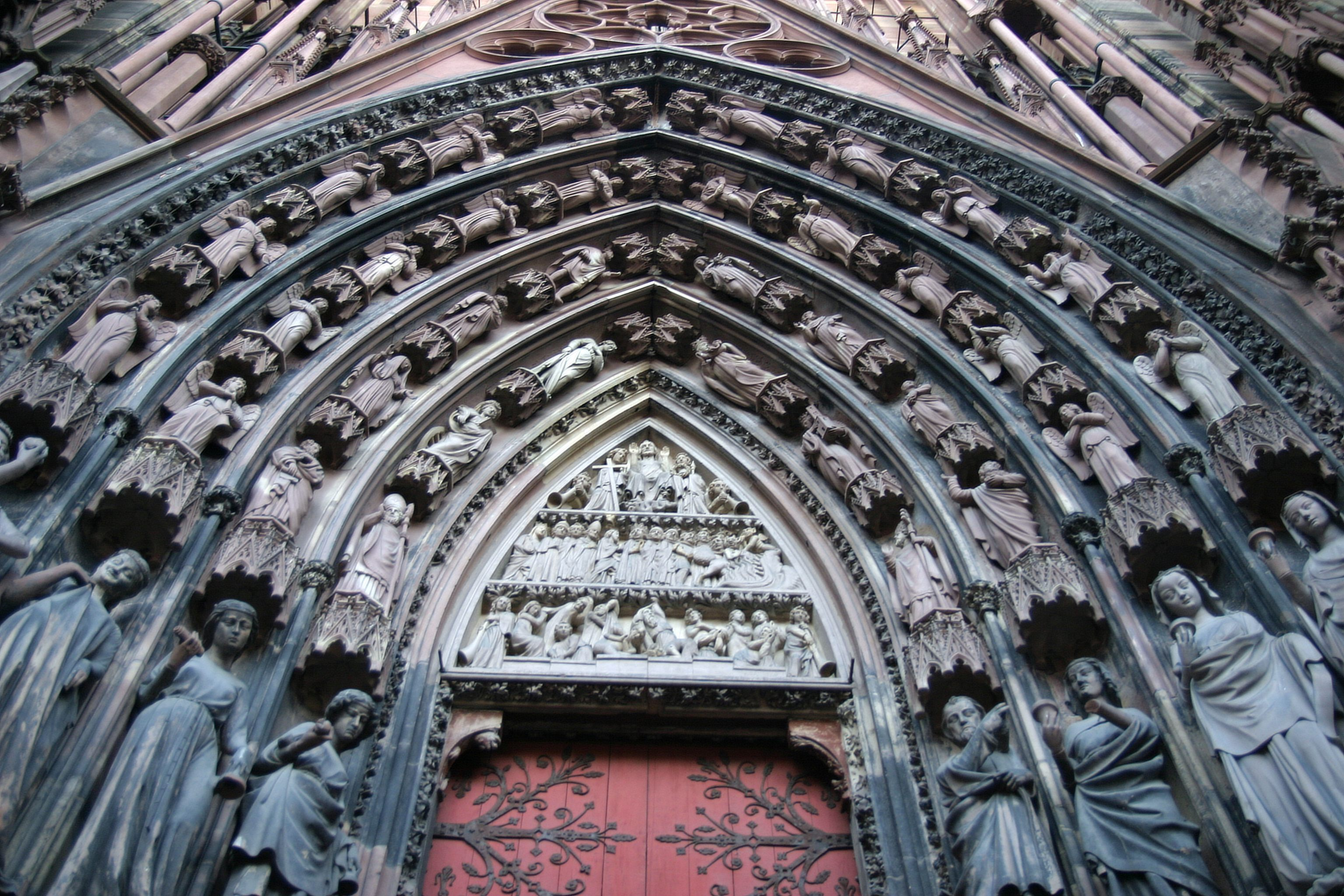 This image was taken at Strasbourg Cathedral, Strasbourg.